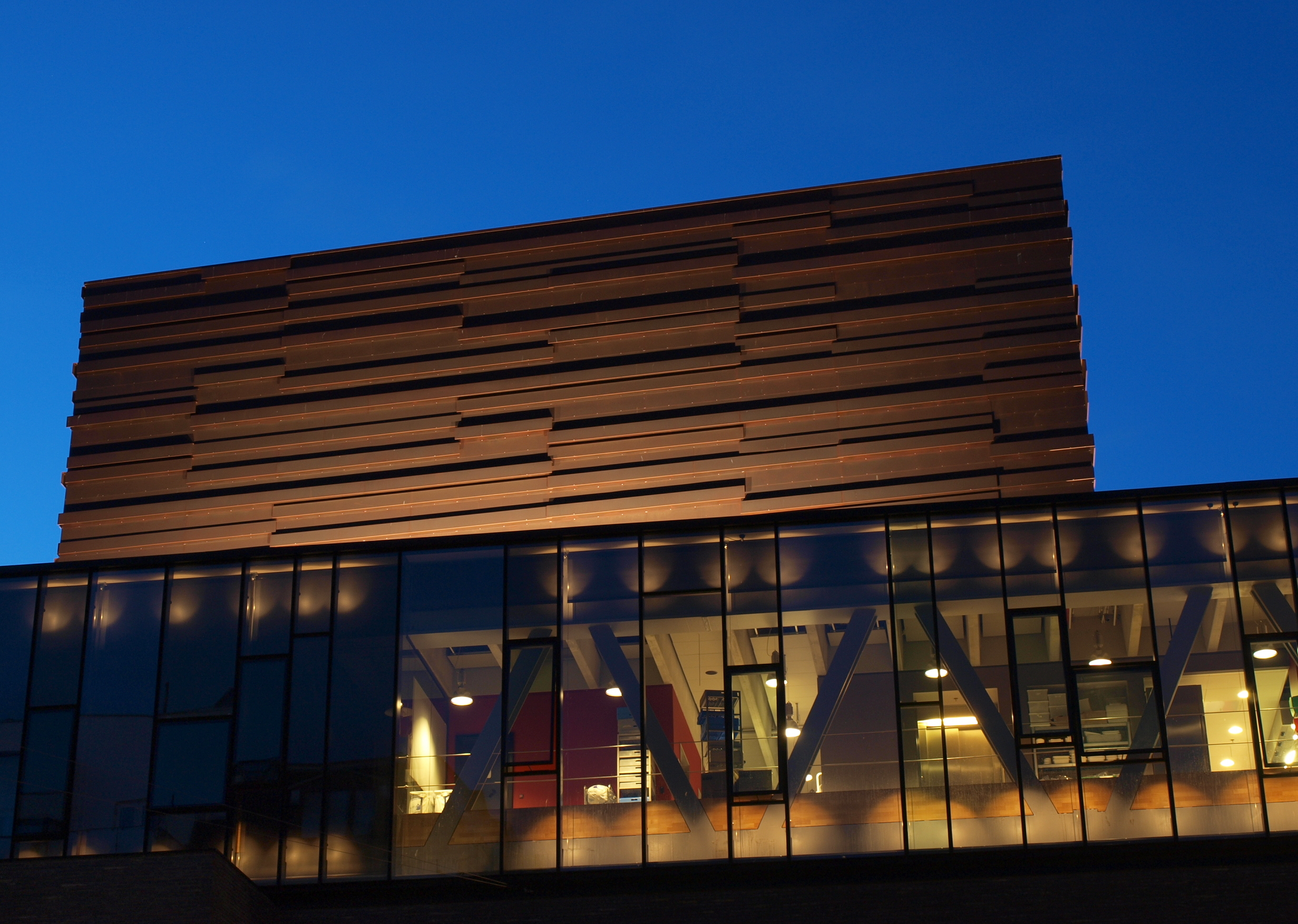 Copenhagen's new theater at night